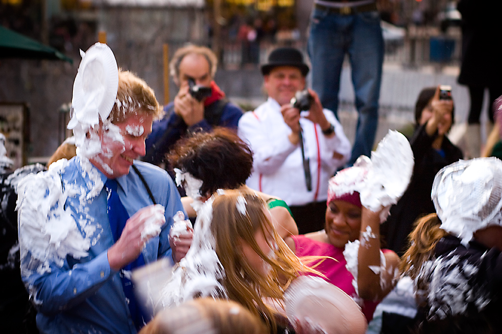 Photo of a pie fight in San Francisco.